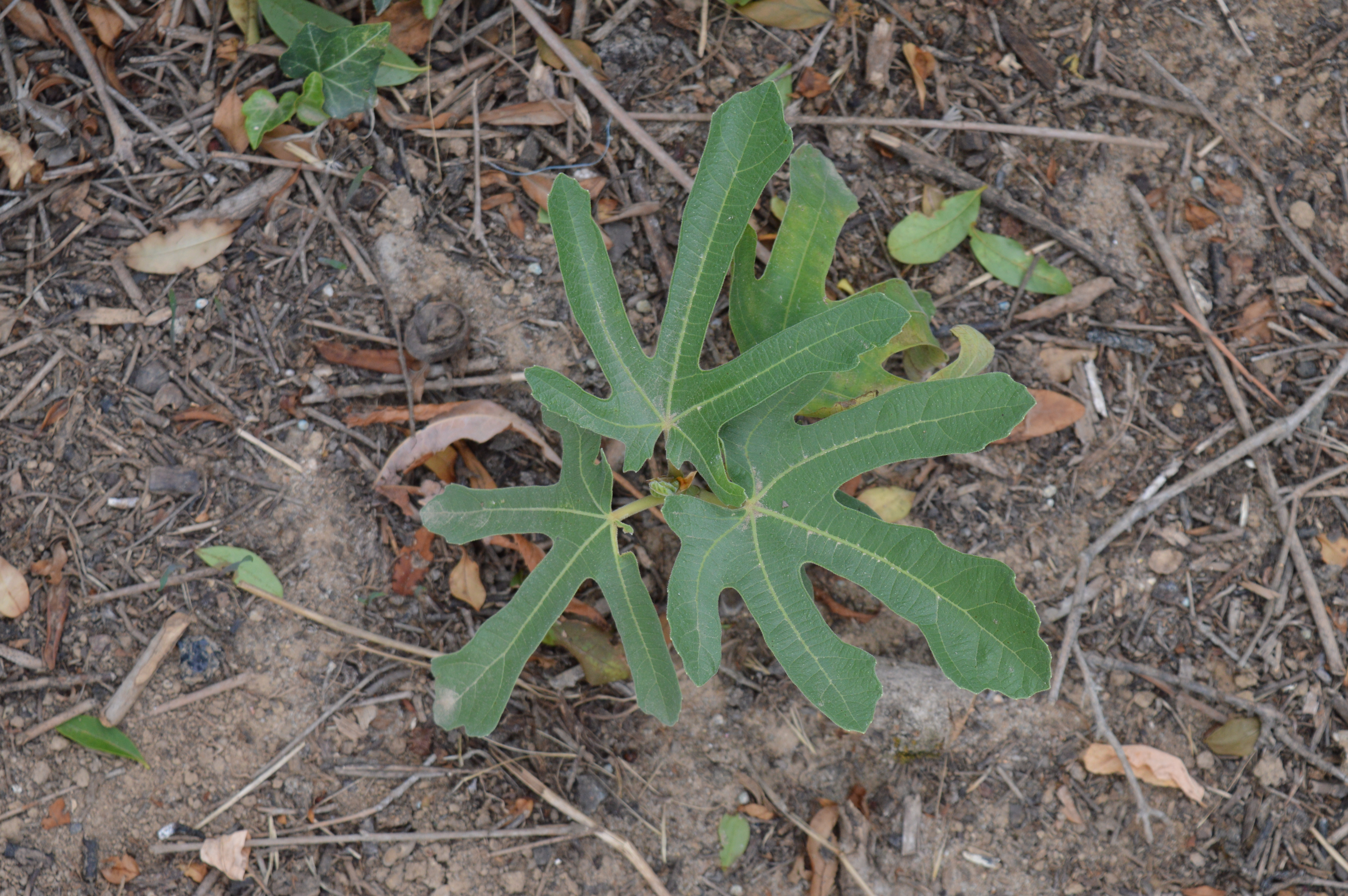 Common fig cutting, "Ronde de Bordeaux", 1 month after rooting